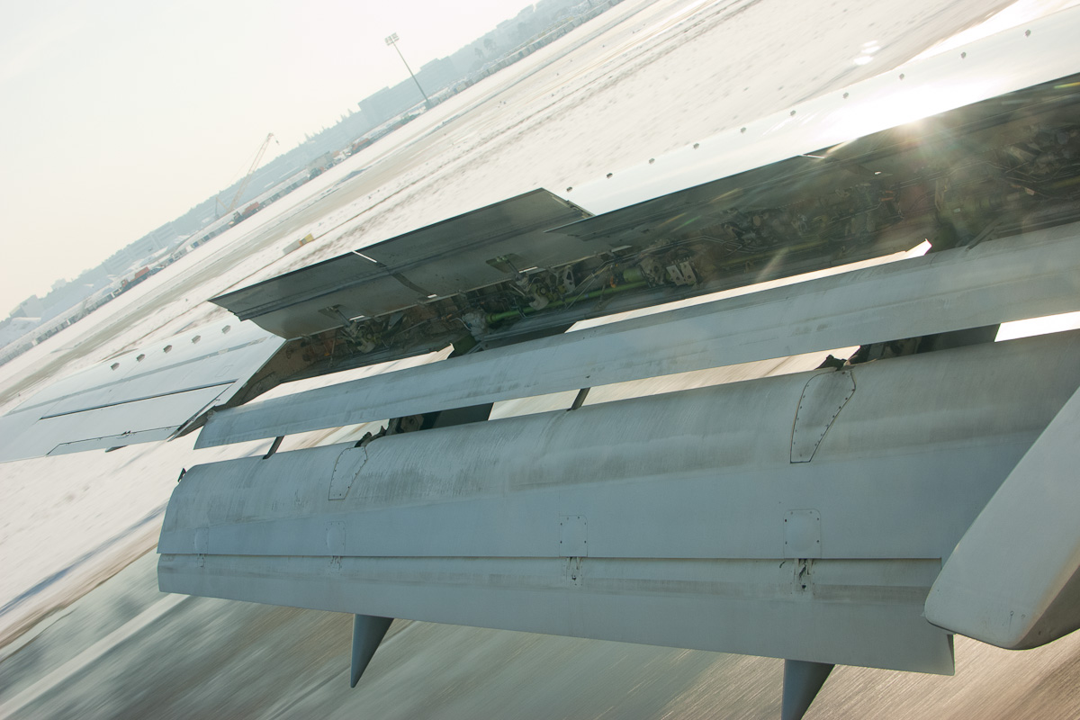 Boeing 737's port wing with flaps and spoilers extended after touchdown (landing)